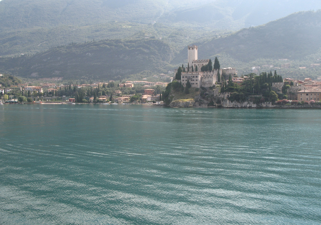 Image of the castle at Malcesine taken from a ferry on Lake Garda